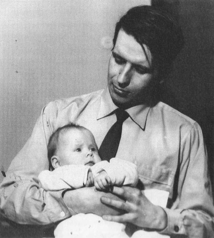 Photograph of the Finnish film scholar Matti Salo (1933–2017) with his niece.